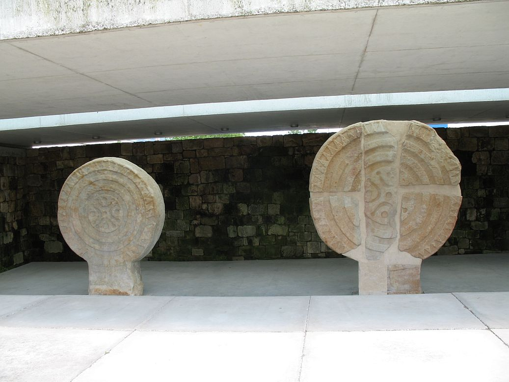 Park of the Stele. Estelas cántabras.